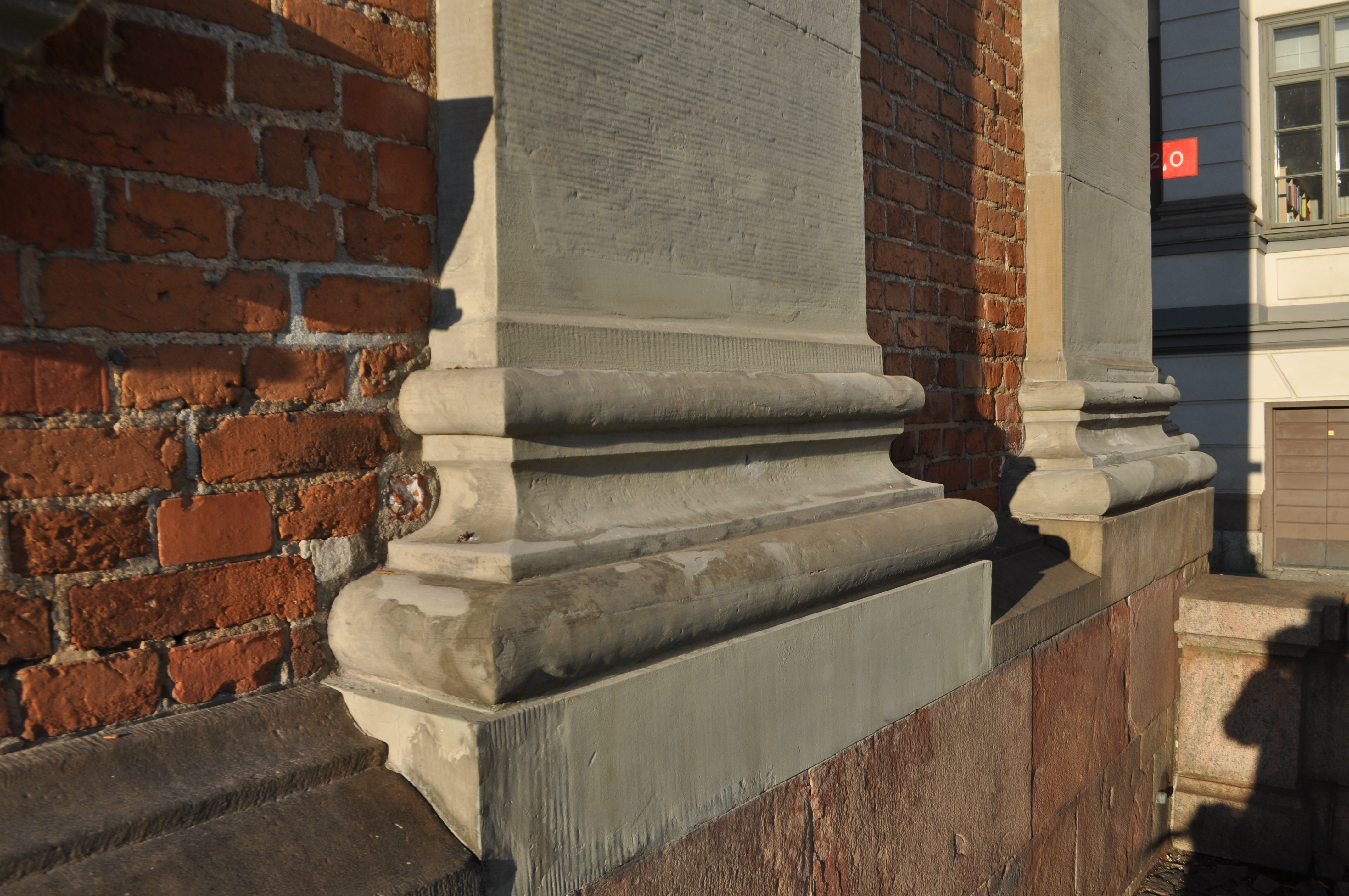 Detail of the attic base of a pilaster at Riddarhuset (Swedish house of Nobility) in Stockholm, Sweden.